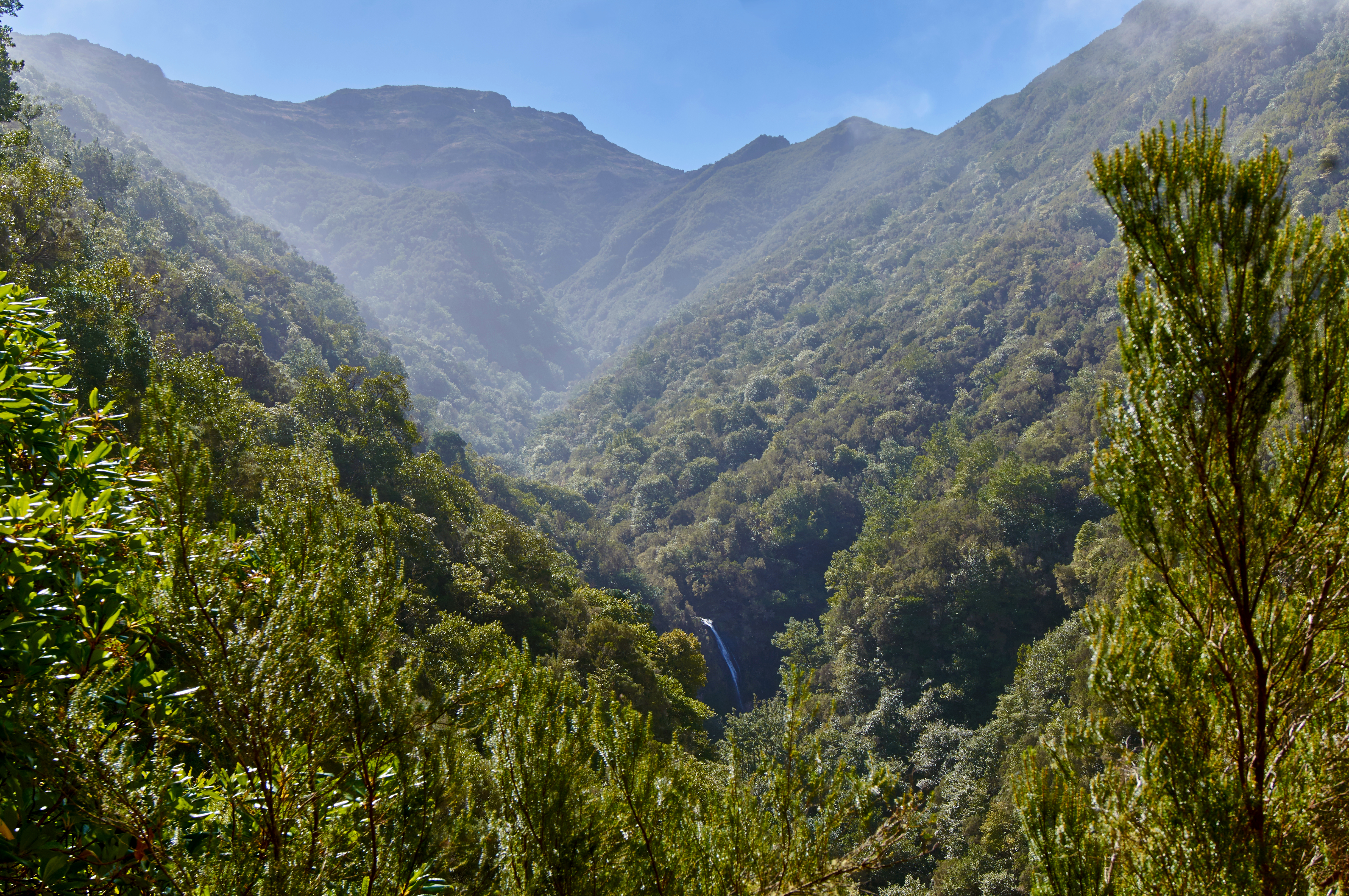 A view from the trail Levada do Caldeirão Verde into the green valleys of Madeira. This is a photography of a Site of Community Importance in Portugal with the ID: PTMAD0001. Natura2000 entry, EEA entry